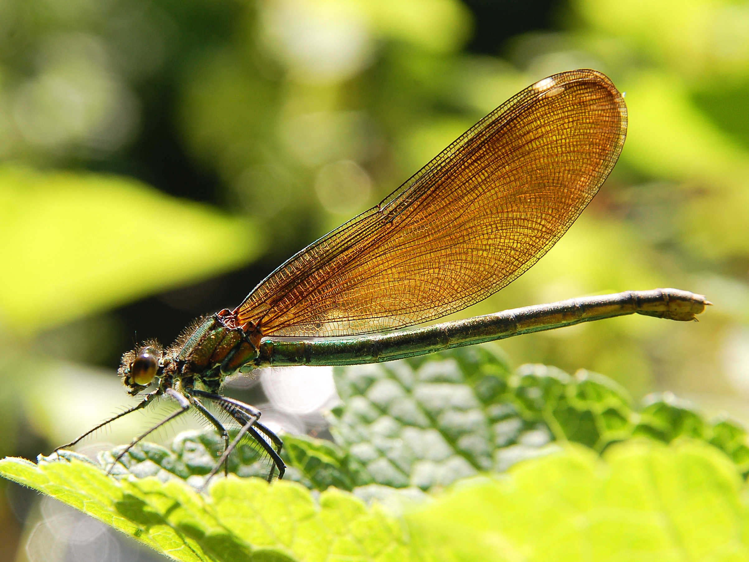 Calopteryx virgo (female) in Belgium (Hamois).